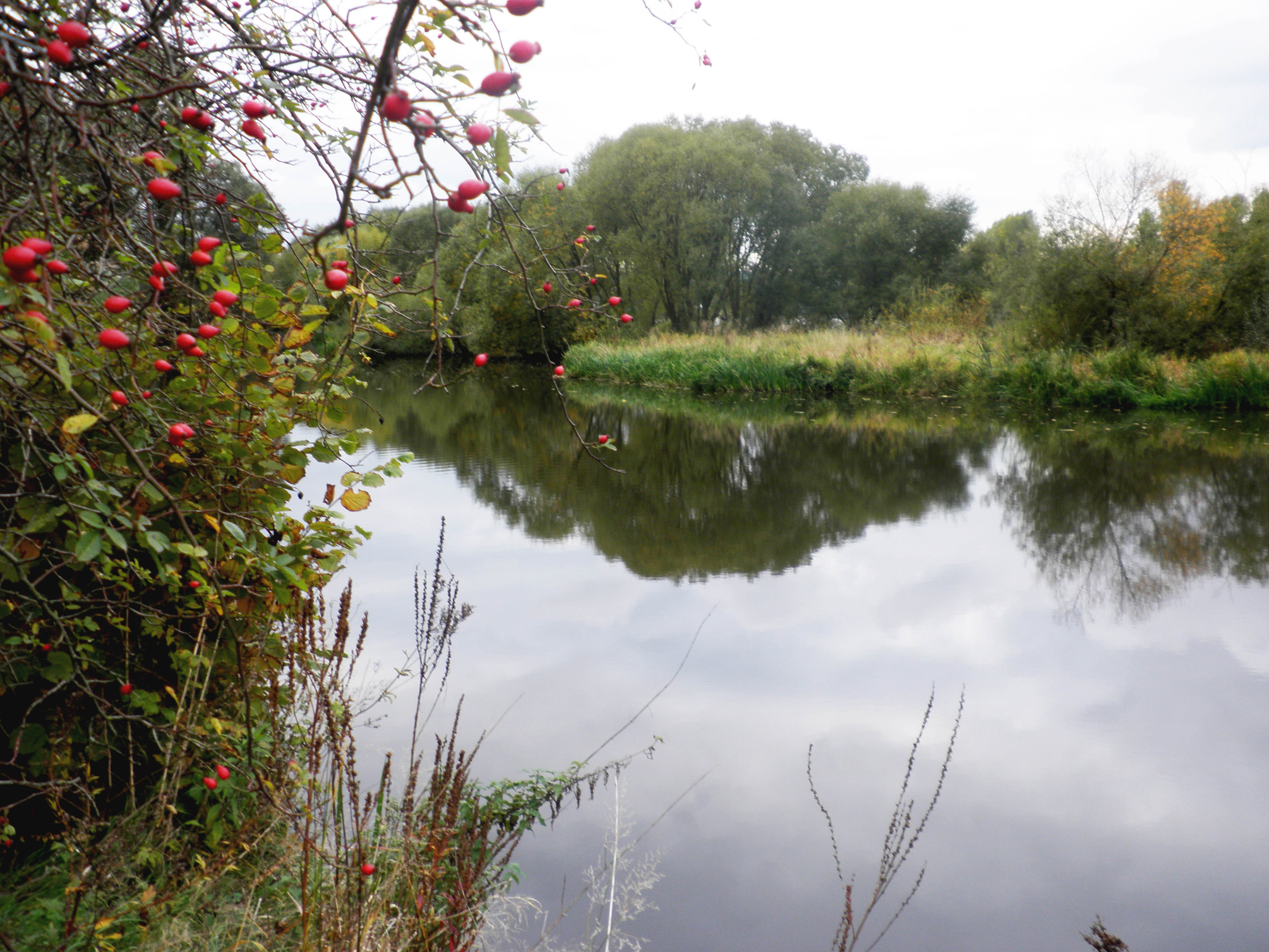 vltava meander